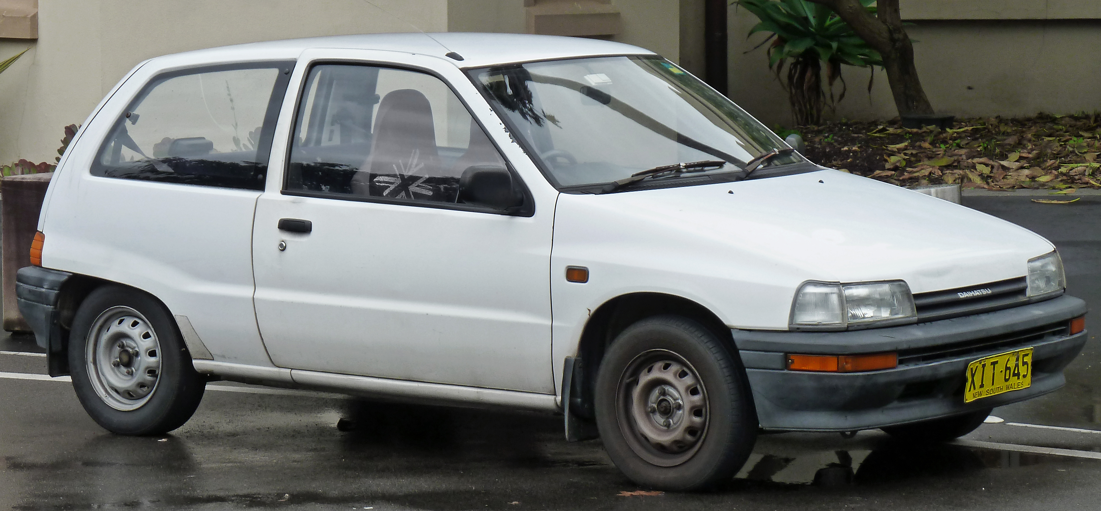 1990 Daihatsu Charade (G100) TS 3-door hatchback. Photographed on Conservatorium Road, Sydney, New South Wales, Australia.